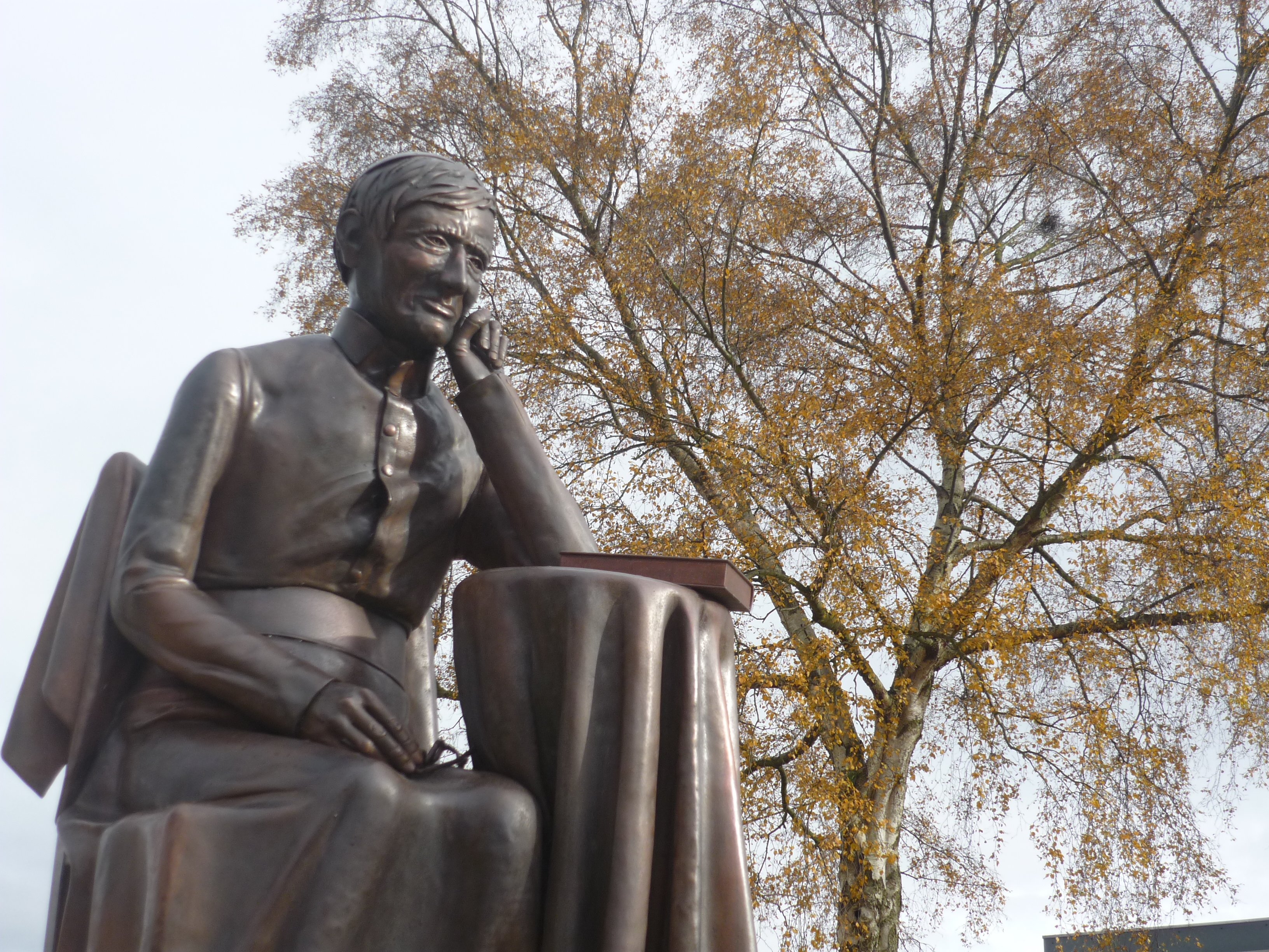 John Henry Newman Statue, Ryland Quad, Newman University